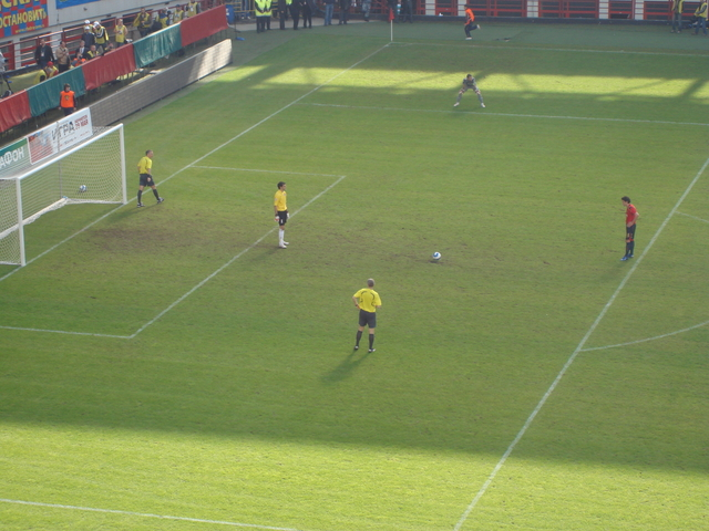 Yuri Zhirkov